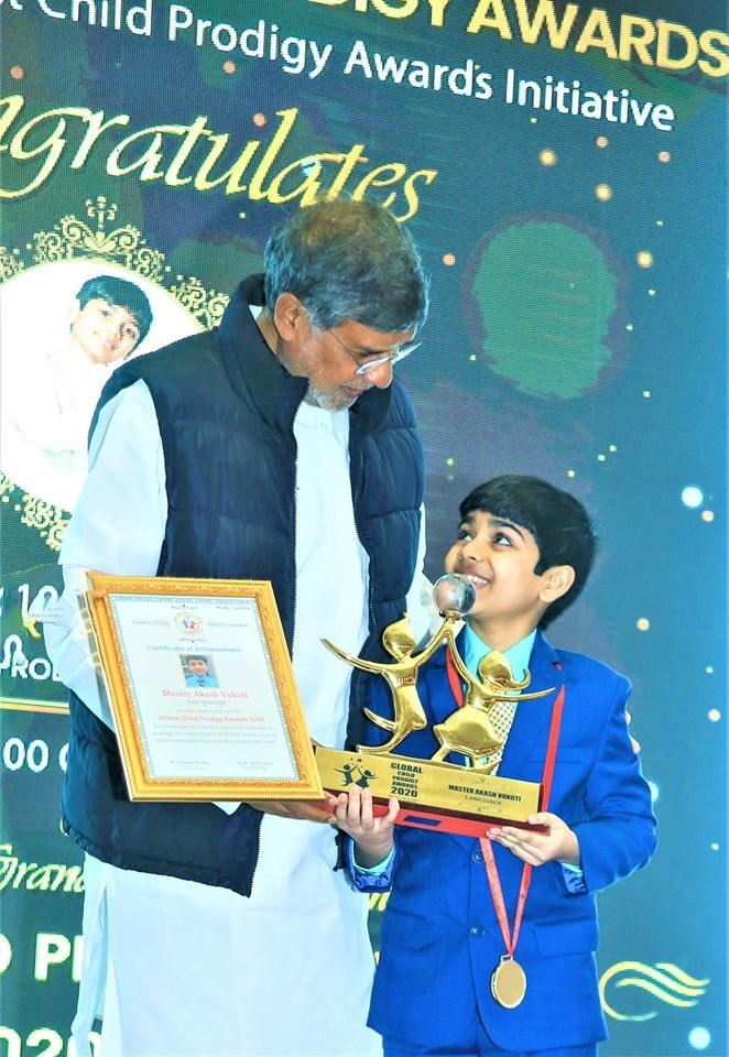 Akash receiving the Global Child Prodigy Award from Dr. Kailash Satyarthi